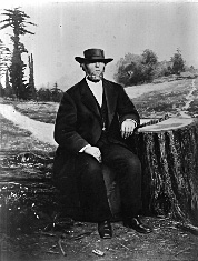 A well-known photograph of Charles Henry McKiernan.